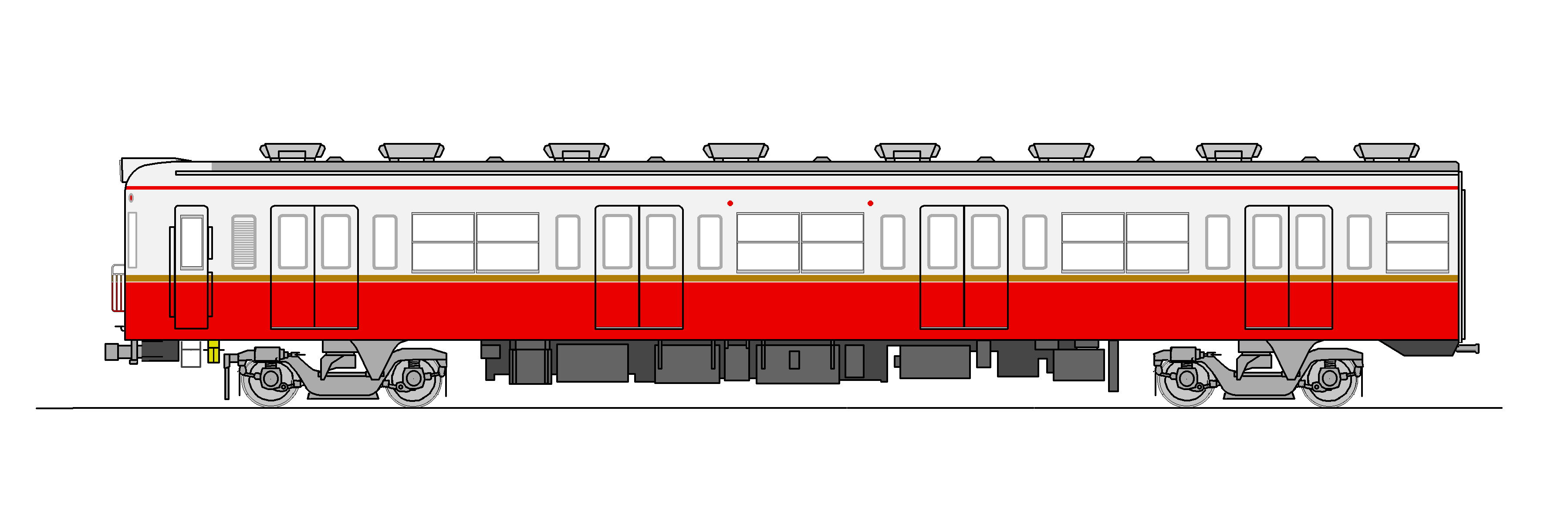 The side view of the EMU series 2600 of Odakyu Electric Railway.